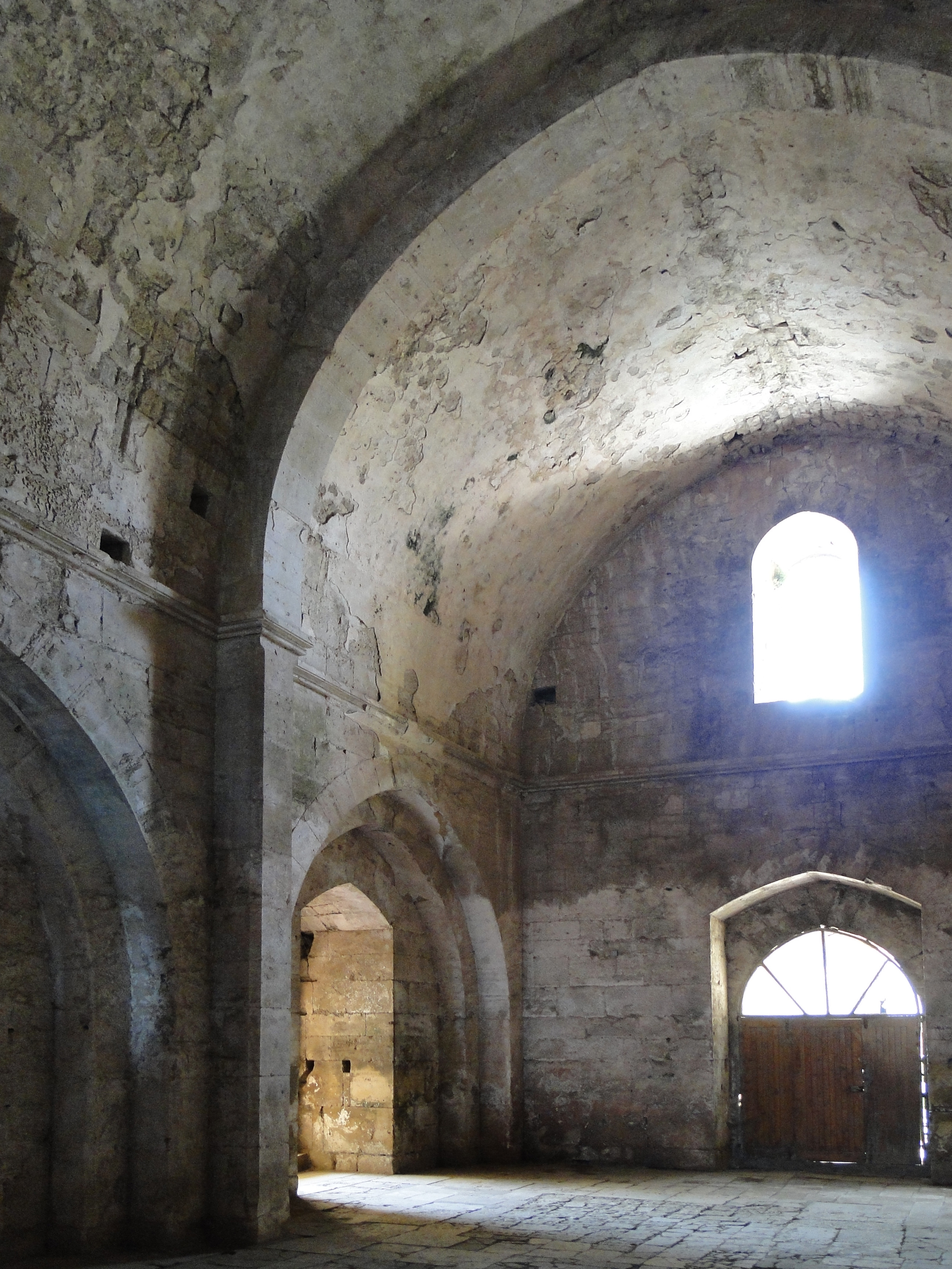 Chapel of the Krak des Chevaliers, Syria